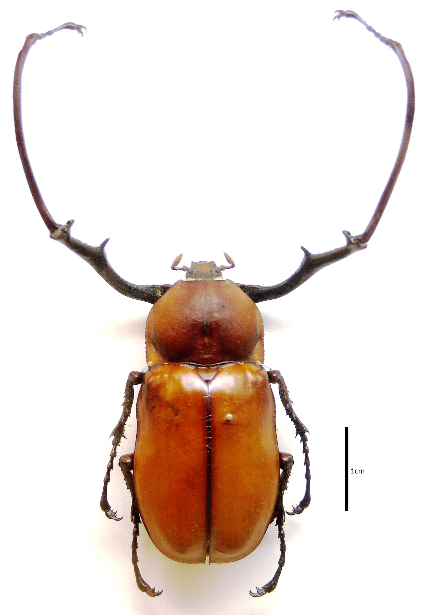 Euchirus longimanus (Scarabaeidae), mounted specimen from Maluku Islands.